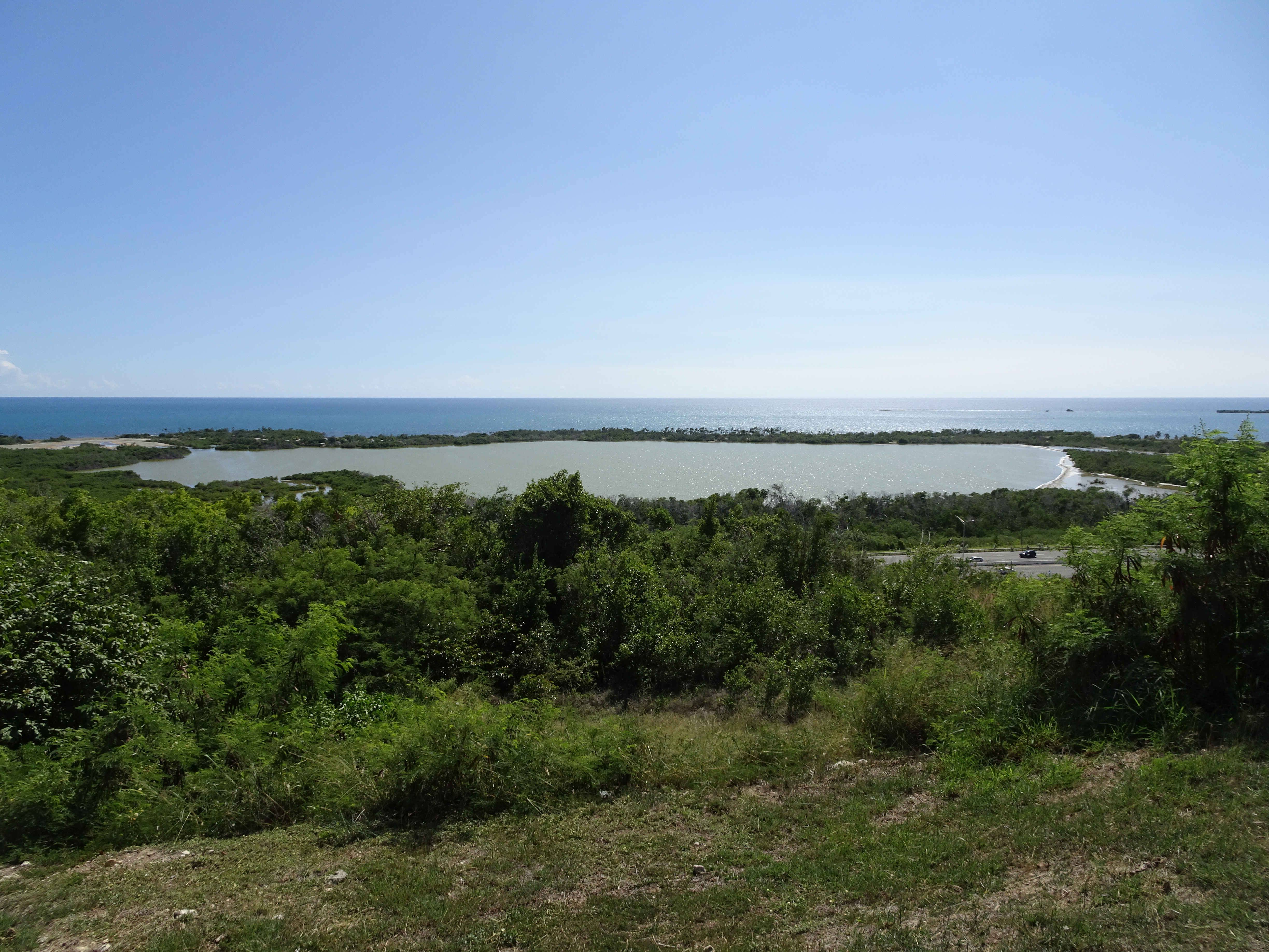 Laguna de las Salinas, Bo. Canas, Ponce, Puerto Rico, vista desde el Hotel Ponce Holiday Inn, mirando al sur (DSC02873)